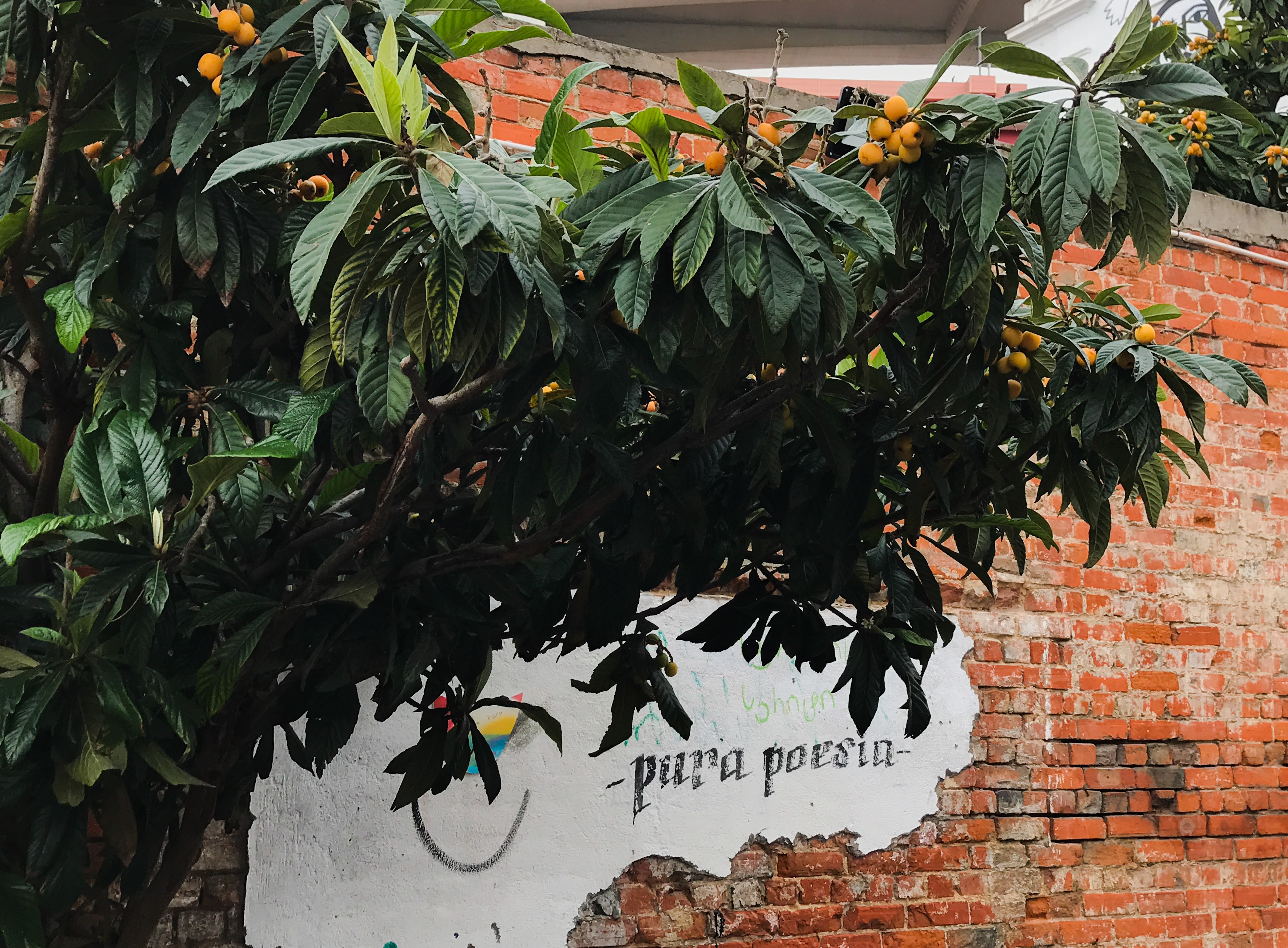 Lisbon. LX Factory.